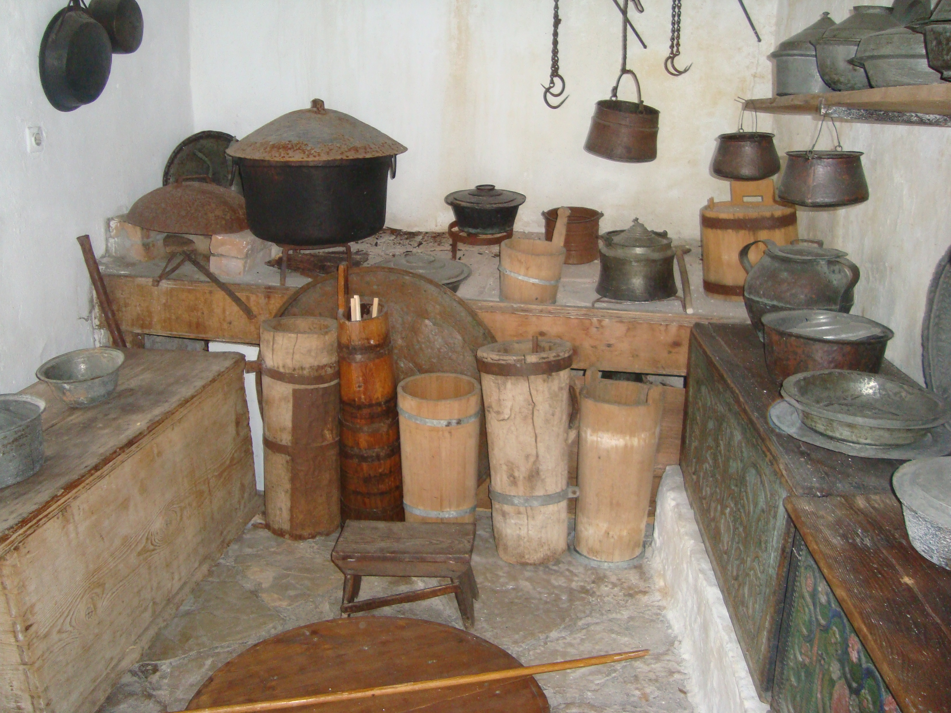 Kitchen in Bosniak house